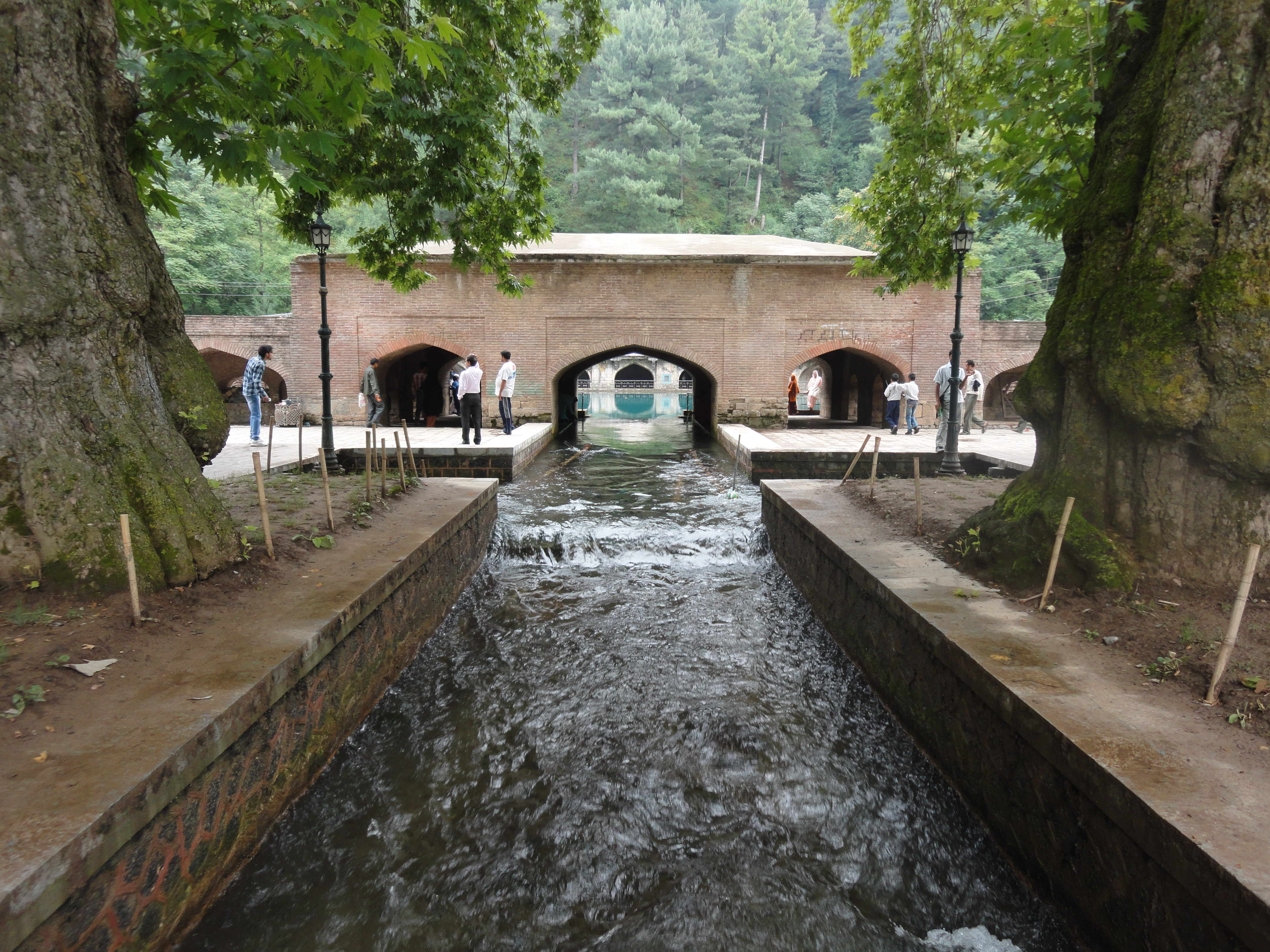 Mughal Arcad and Spjring at Verinag